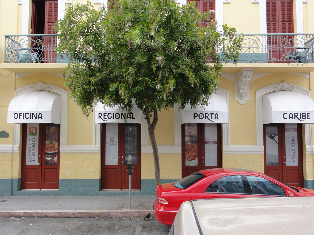 Porta Caribe Headquarters on Calle Villa, in Barrio Segundo, Ponce, Puerto Rico